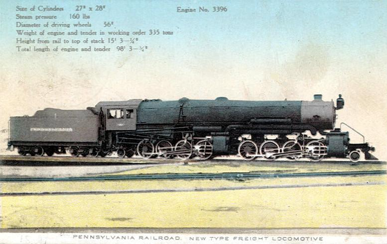 Postcard depiction of an Alco HH1 locomotive of the Pennsylvania Railroad. This was the only HH1 owned by the railroad, built in 1911 and scrapped in 1928. No postcard back shown but description says this card was sent in 1913, which would be in line with the information that this was a new type of locomotive for the railroad. "31/4"X5 1/4" IN SIZE. VG SHAPE. USED PM 1913."